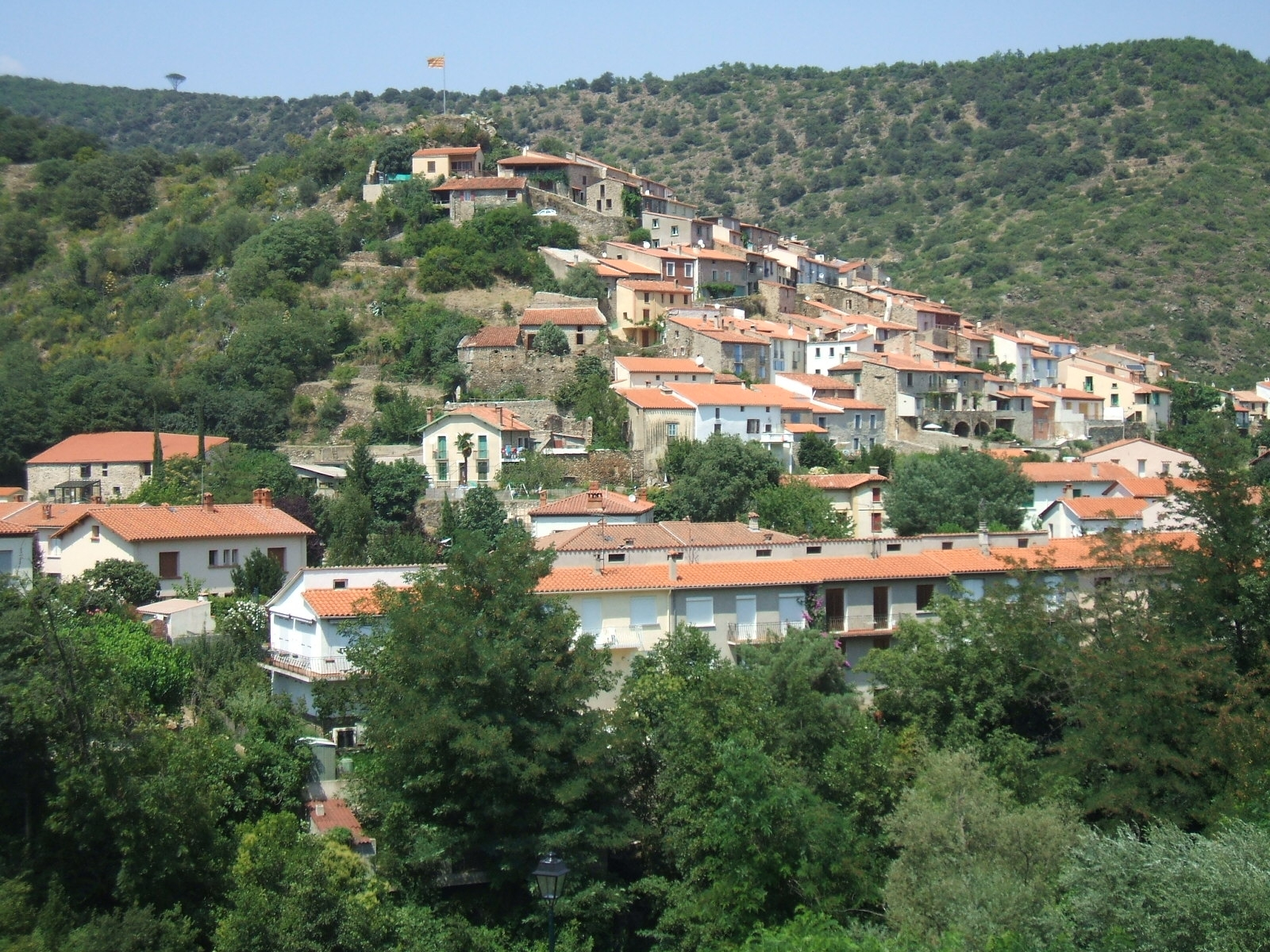 Ria-Sirach (département of Pyrénées-Orientales, Languedoc-Roussillon région, France) : Ria viewed from the RN116 highway